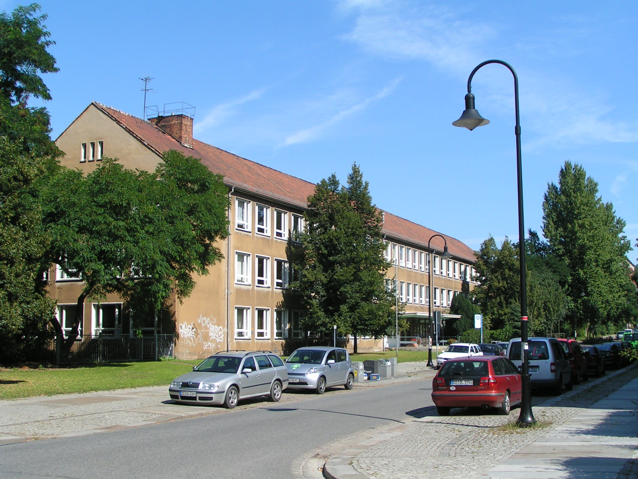 Dresden, Hechtviertel, Hechtstraße